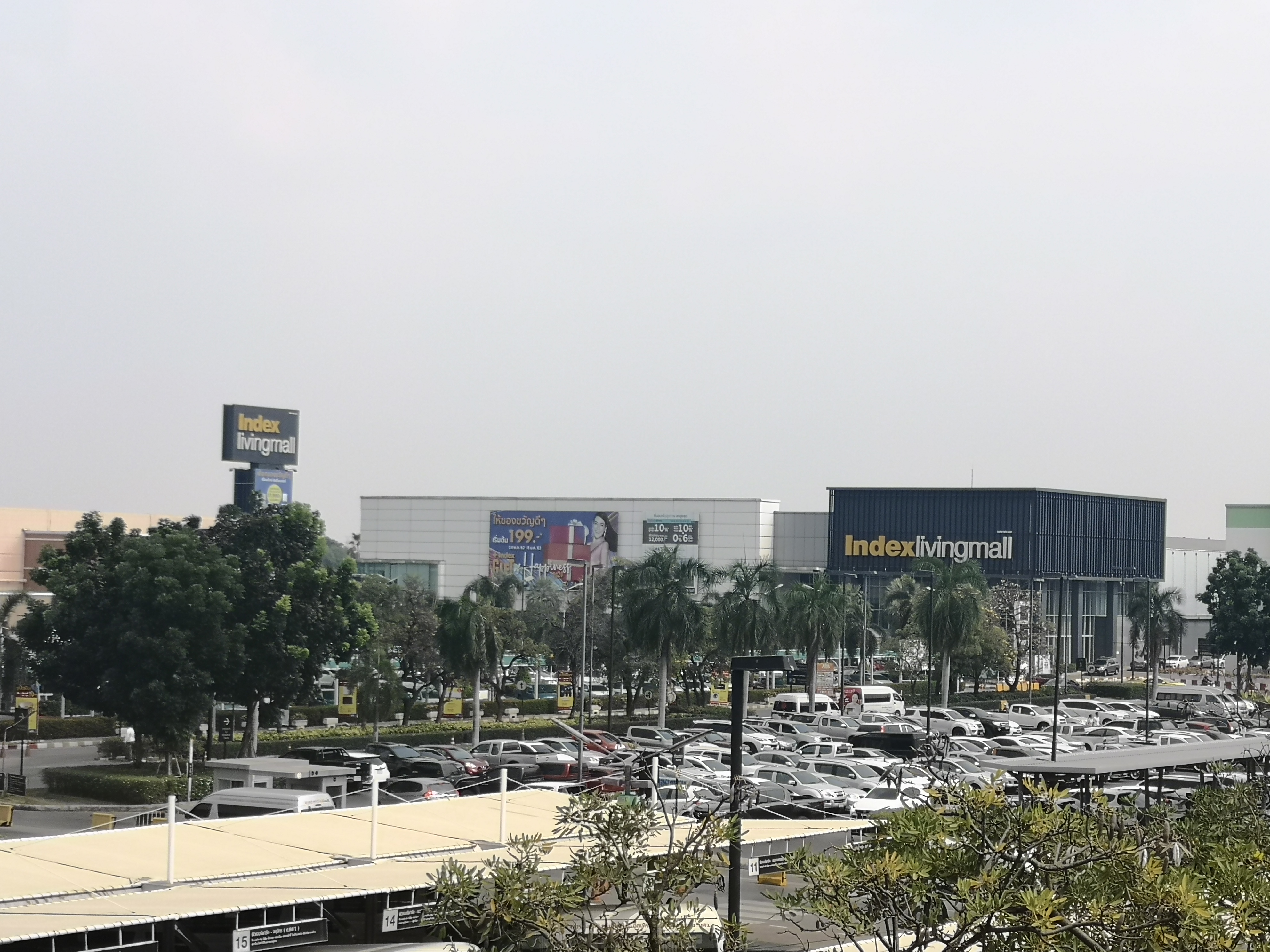 Index Livingmall (Rangsit)